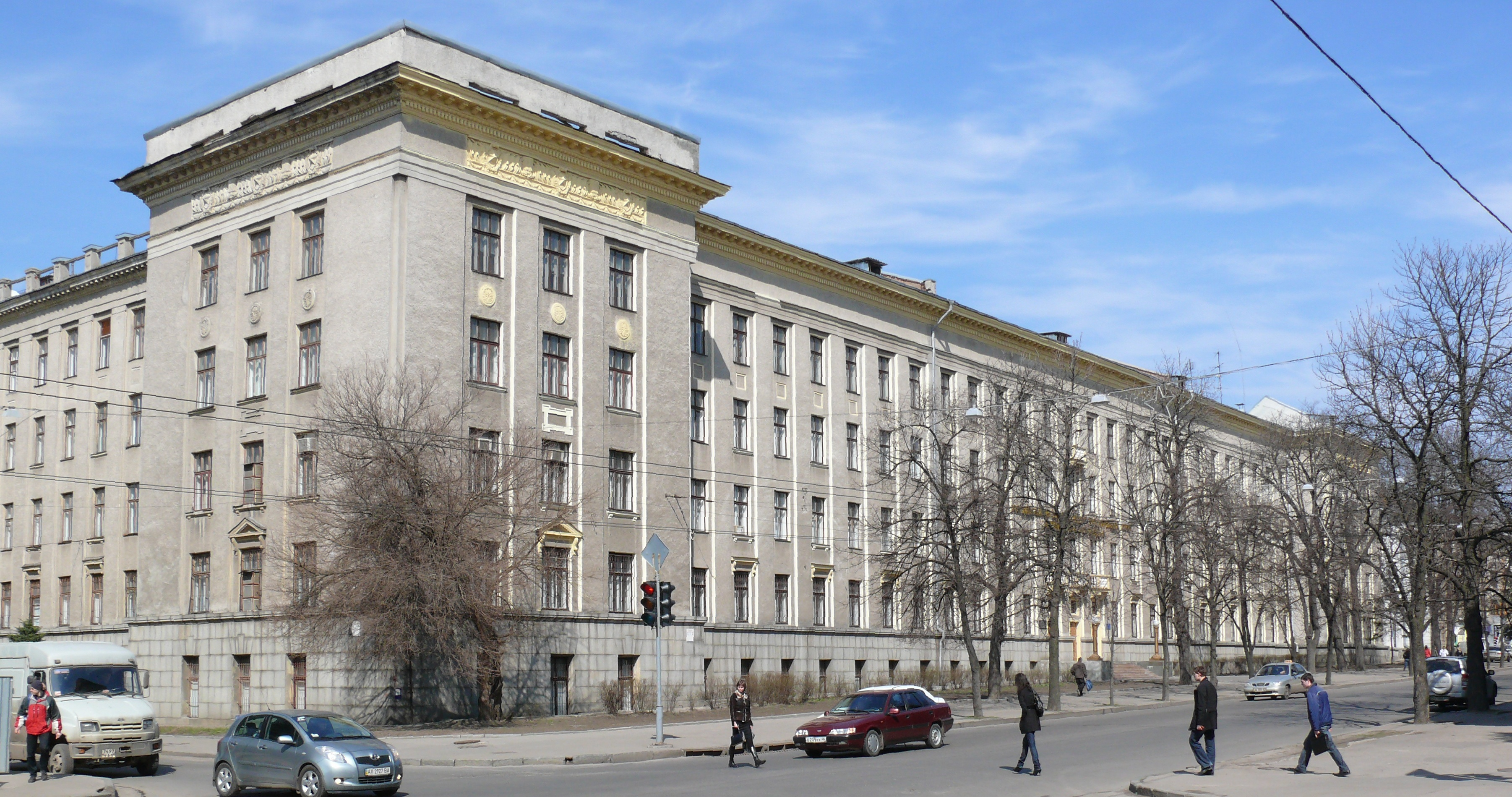 Kharkov air force university